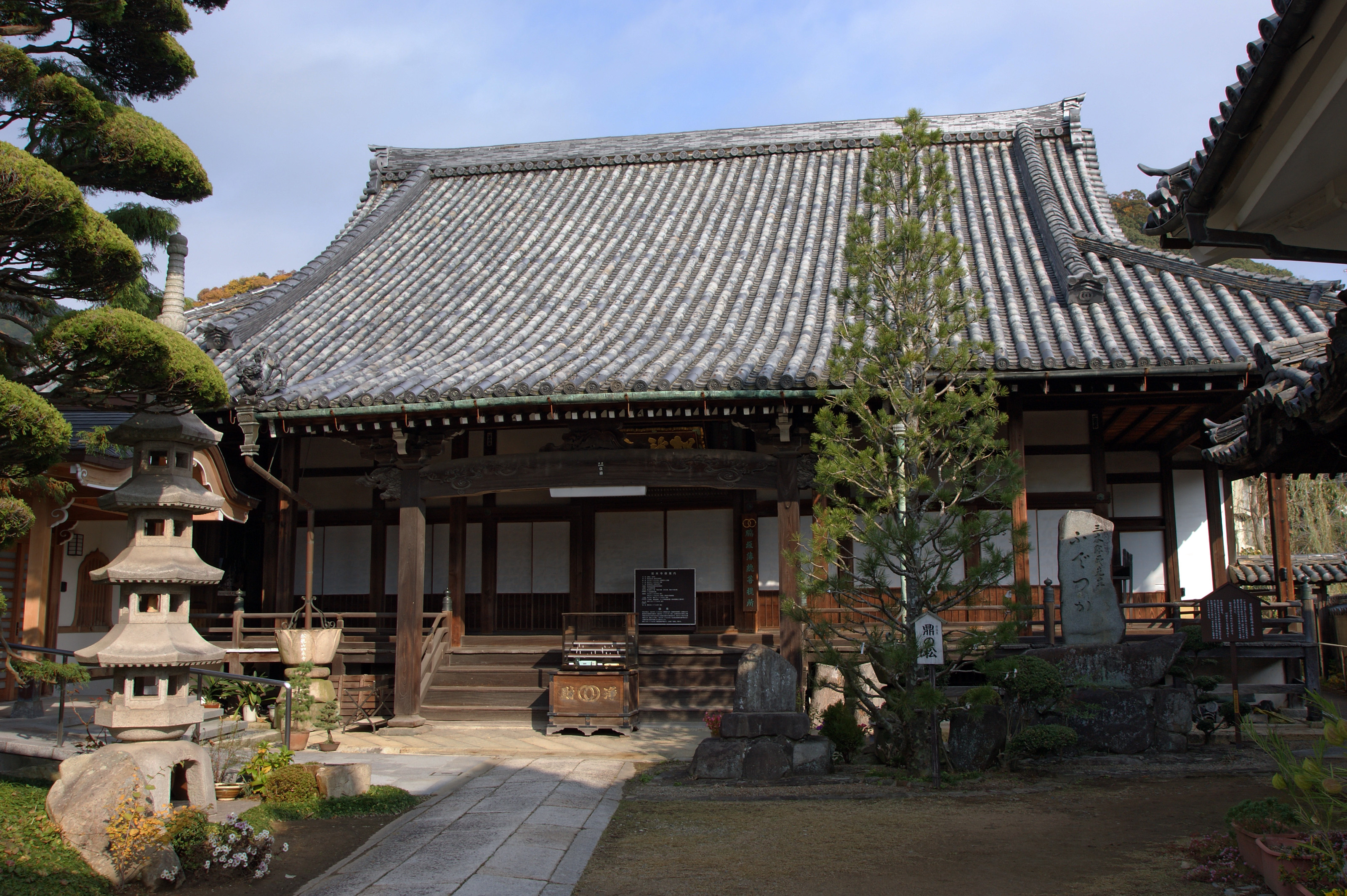 Nyoraiji, Tatsuno, Hyogo prefecture, Japan